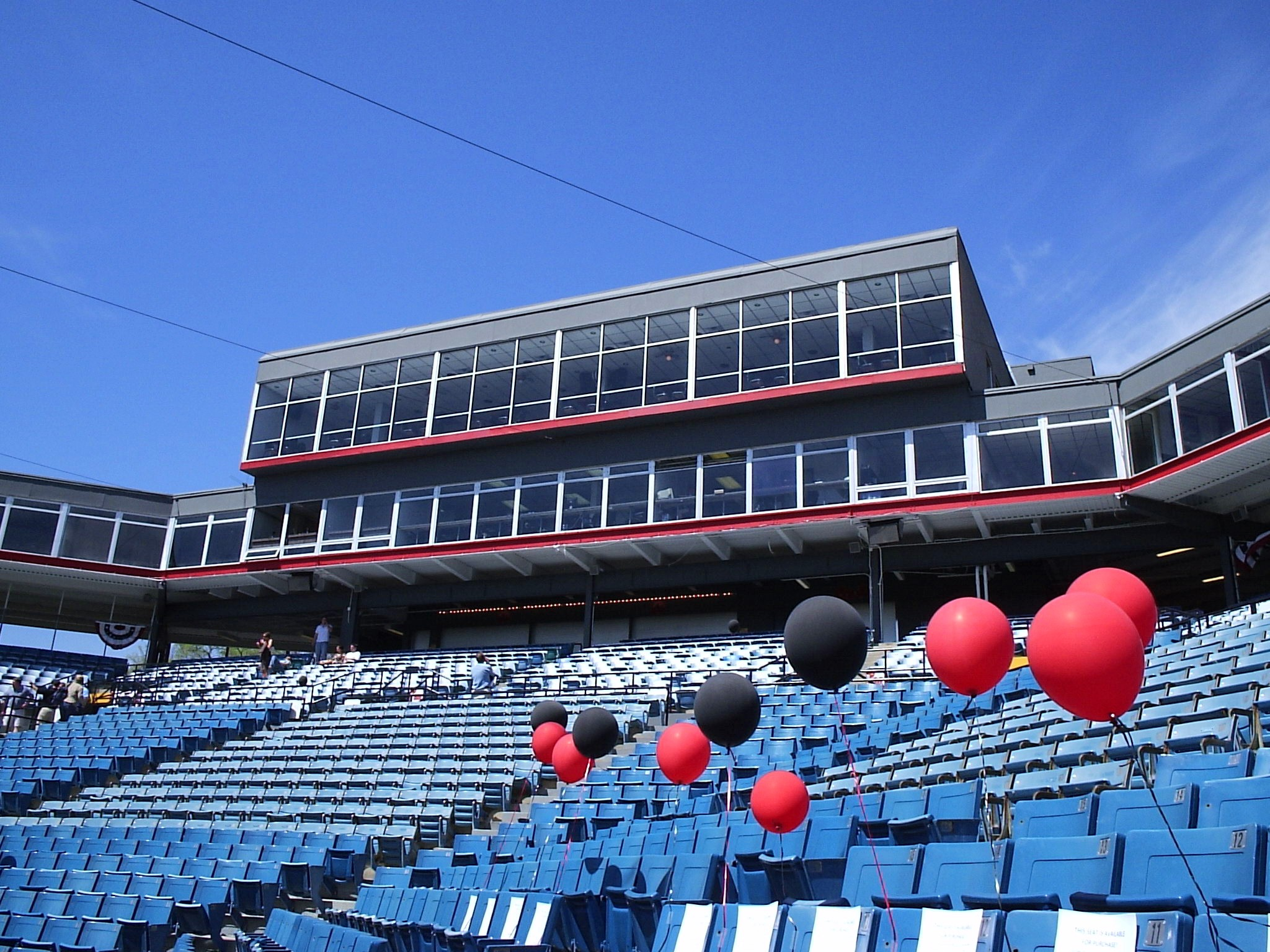 A view of the press box at Greer Stadium